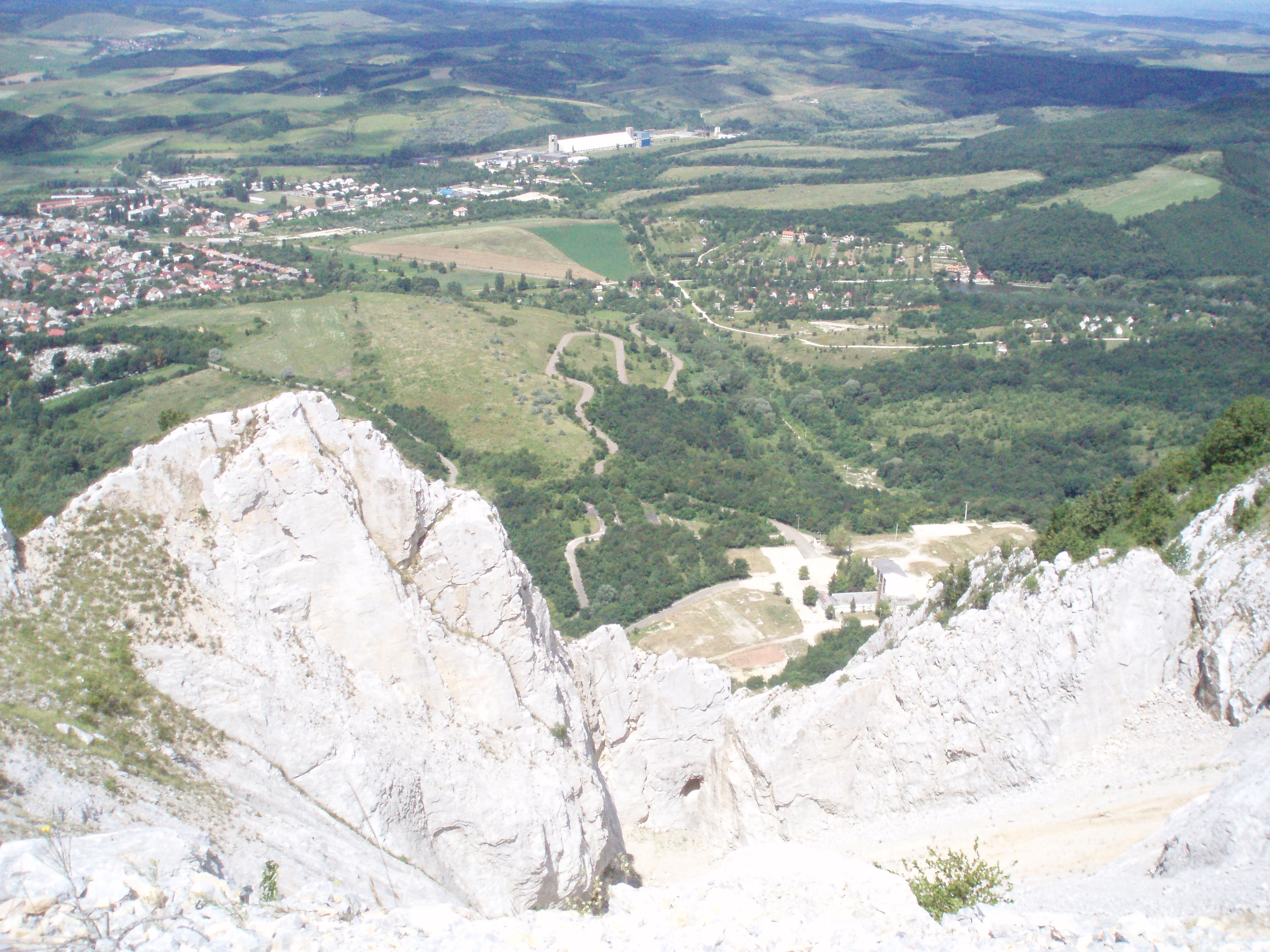 View of Belapatfalva, Hungary